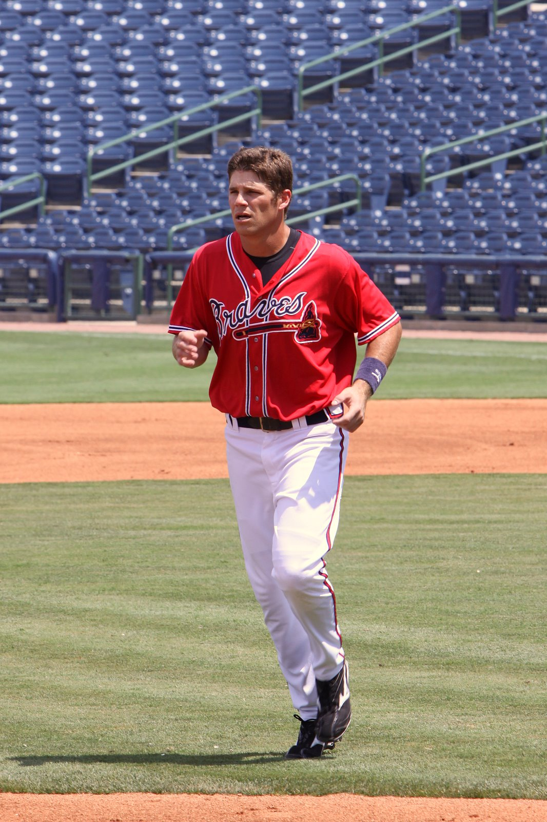 Mississippi Braves left fielder Eric Duncan.